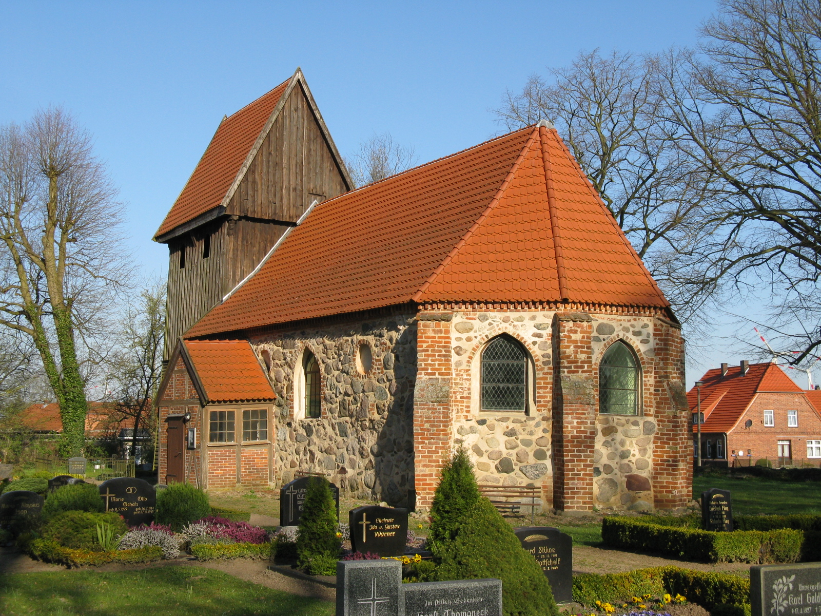 Church in Kossebade, district Ludwigslust-Parchim, Mecklenburg-Vorpommern, Germany